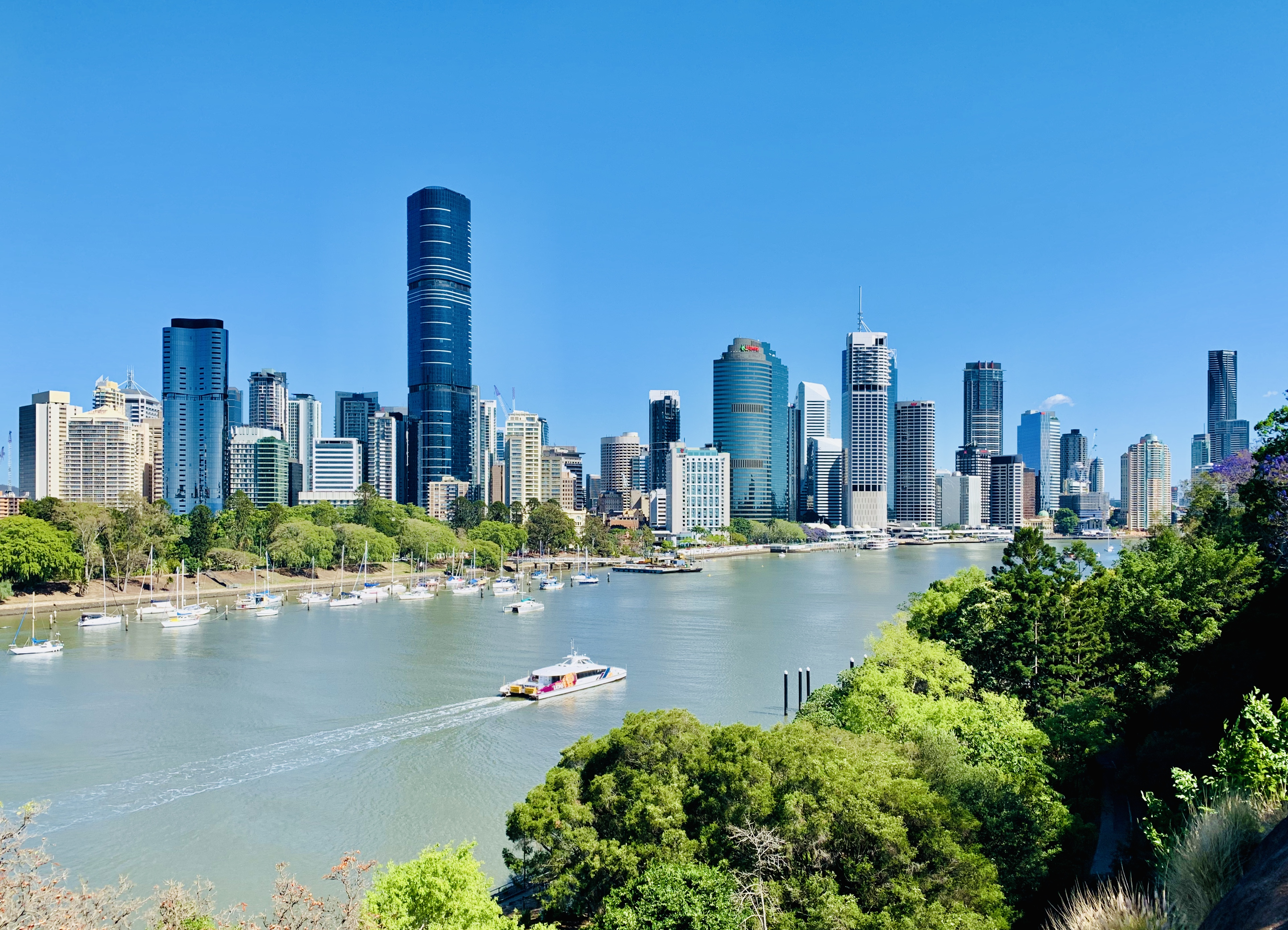 Skyline of Brisbane viewed from Kangaroo Point, Queensland, November 2019